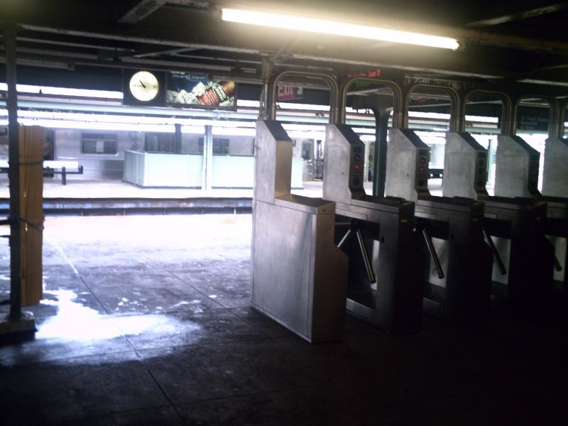 Extra turnstiles on the Manhattan-bound platform of Willets Point-Shea Stadium. It is not known why there are there